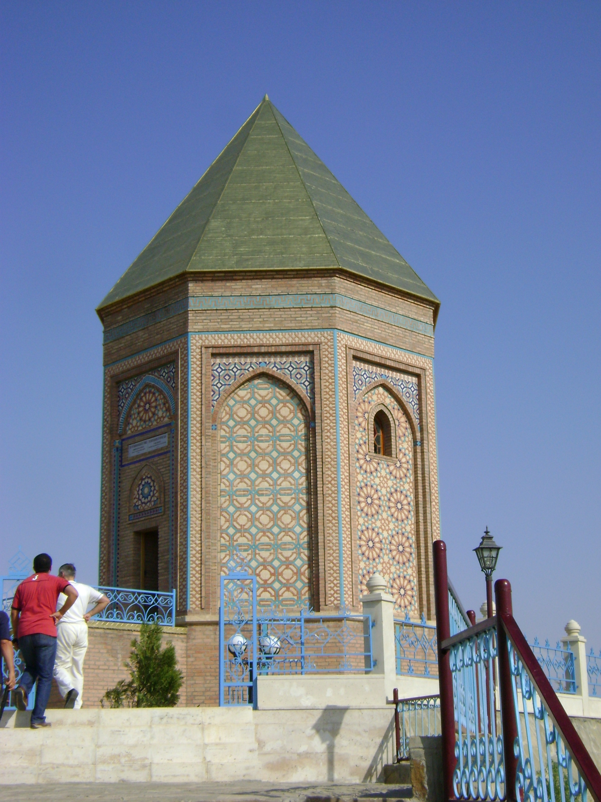 Nakhchivan The grave monument of the prophet Noah. Built in the 17th century.